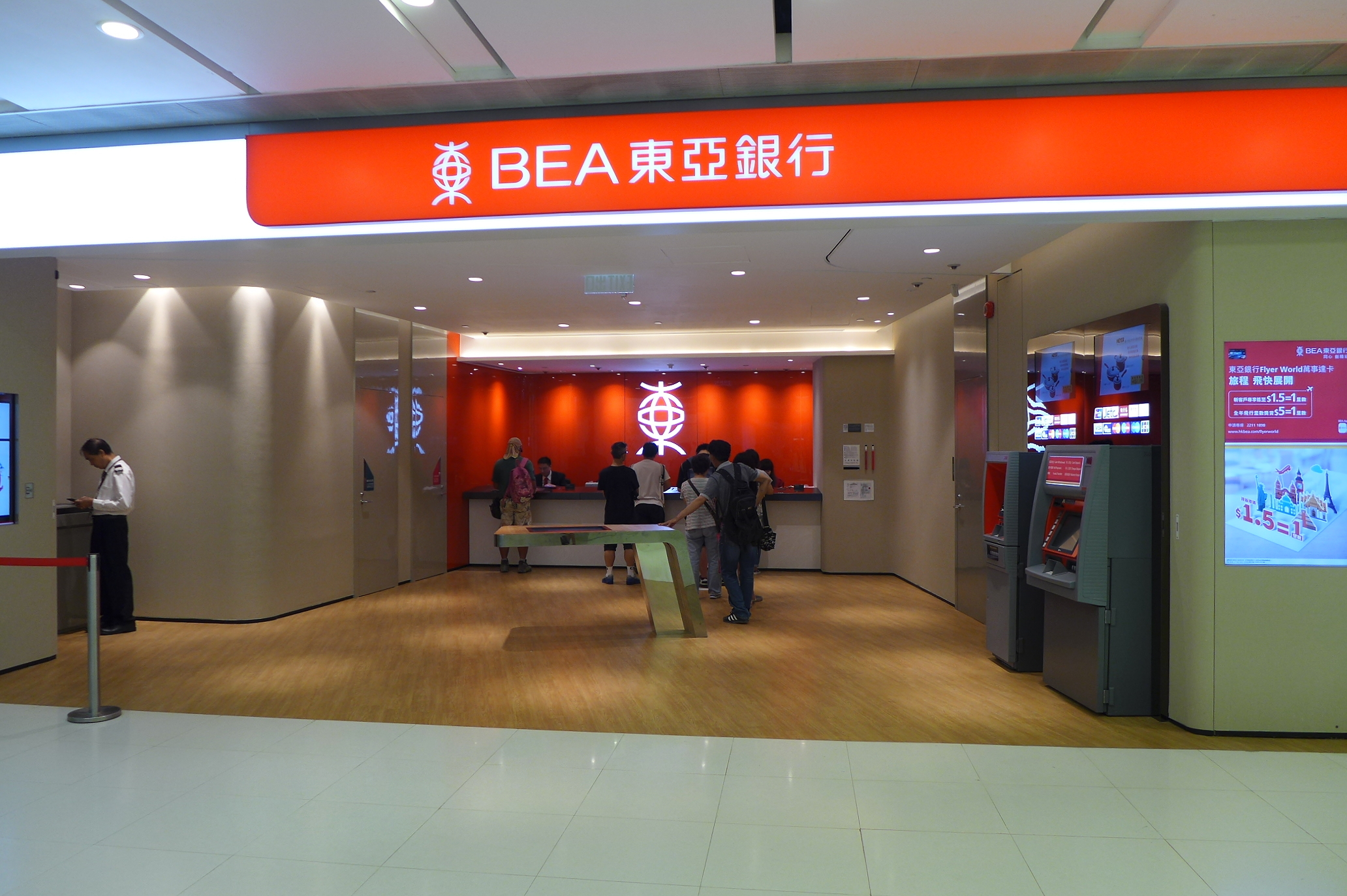 BEA in Park Central 將軍澳中心